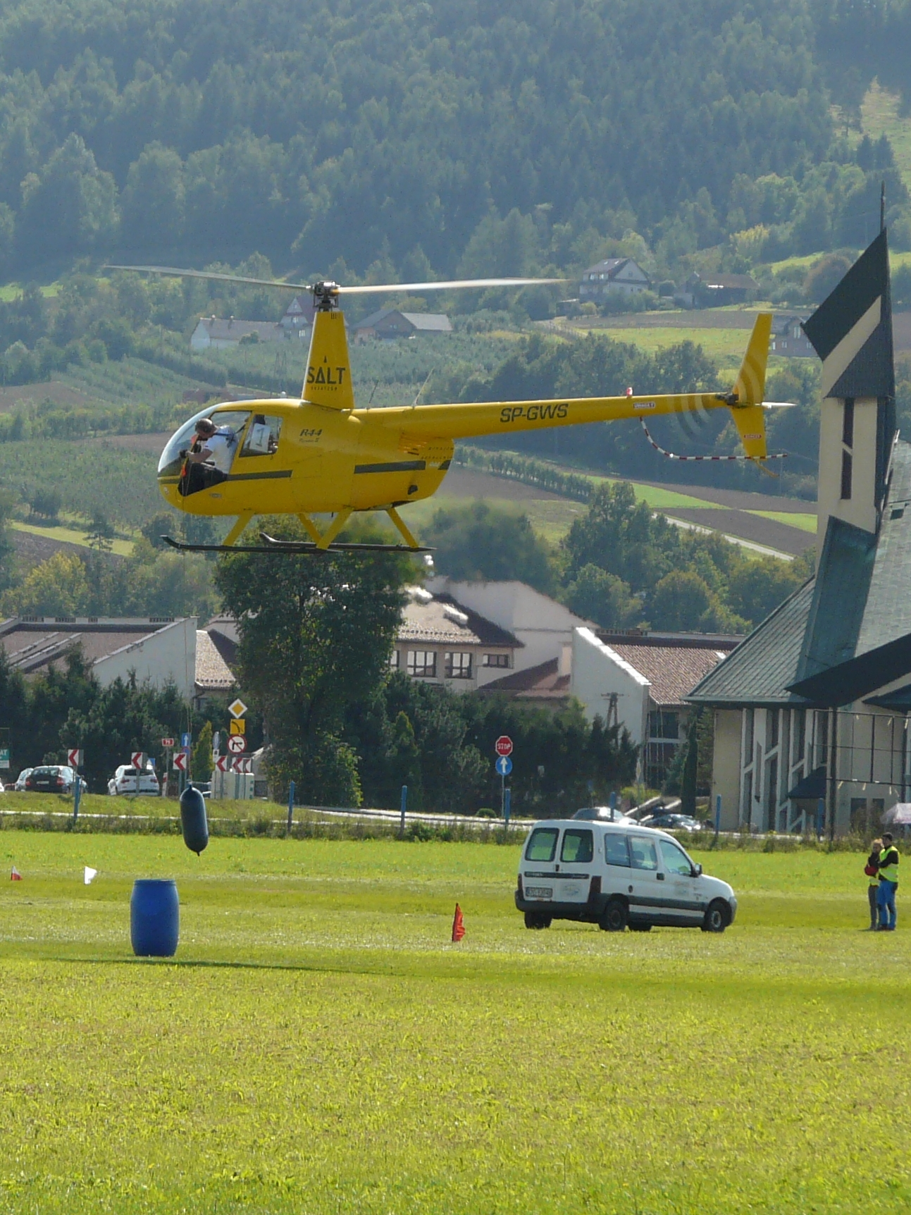 Helicopter World Cup 2019, Łososina Dolna, Poland